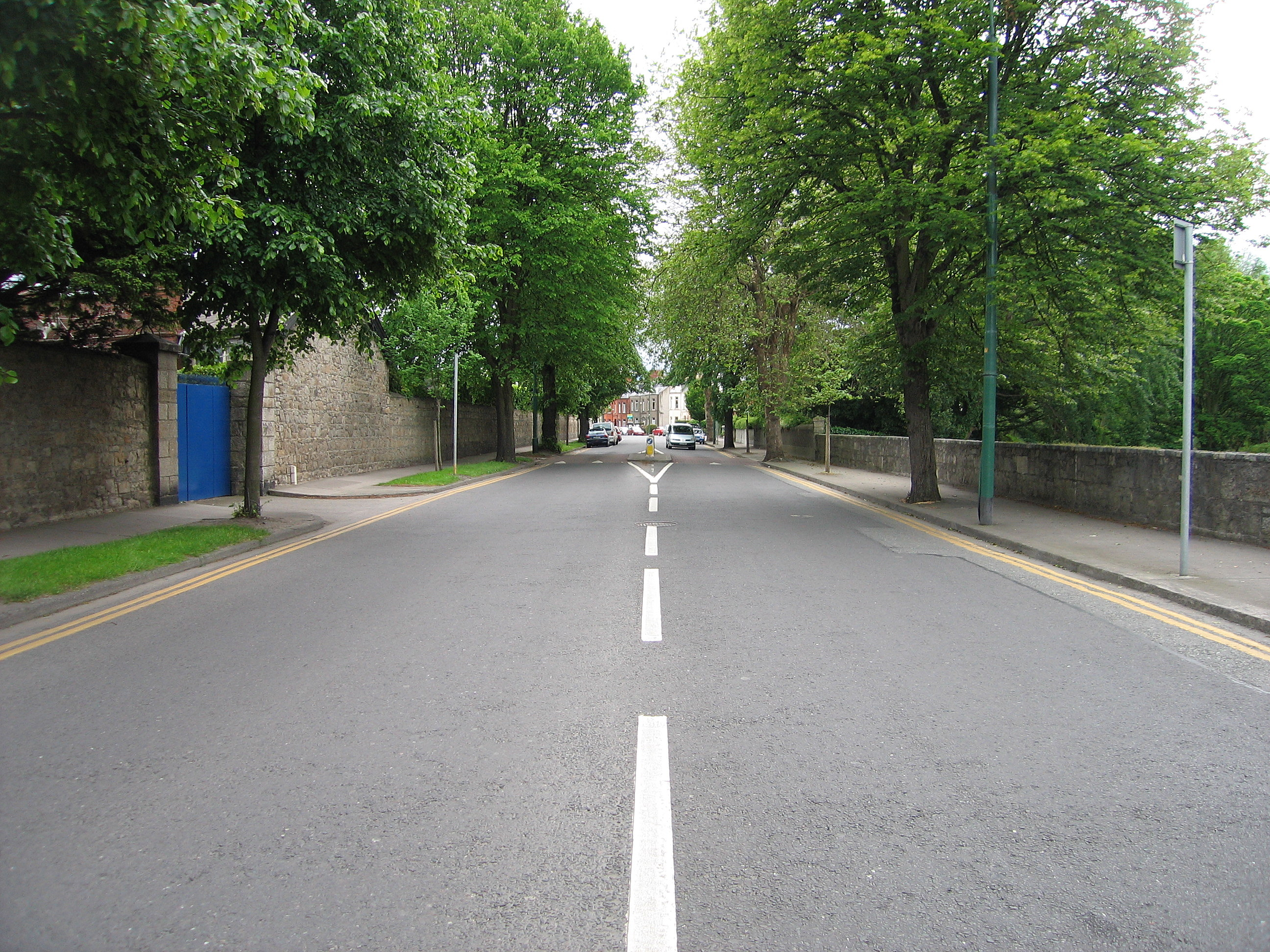 Angelsea Road, Ballsbridge